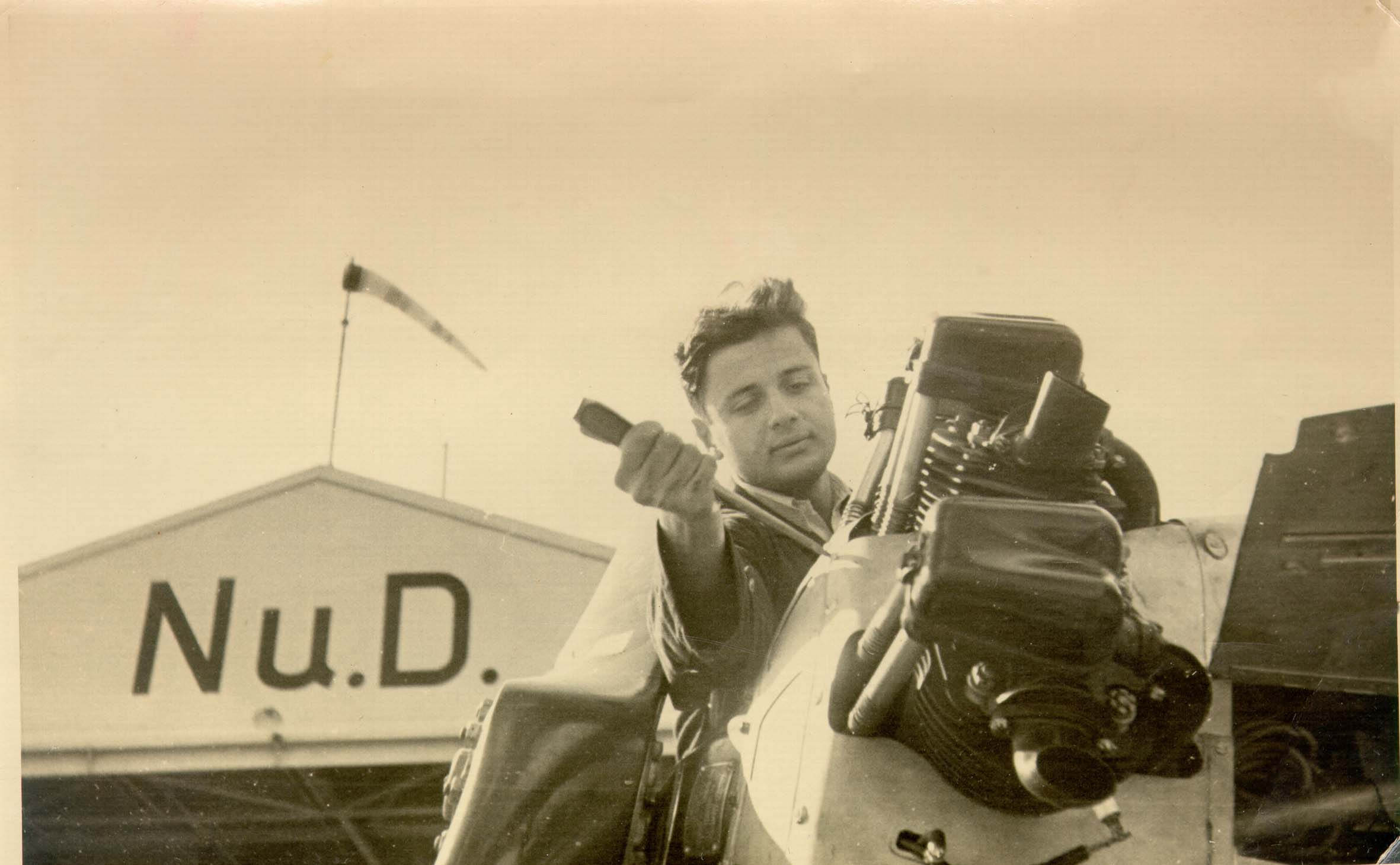 Mehmet Kum (March 10, 1922 - June 15, 2011).